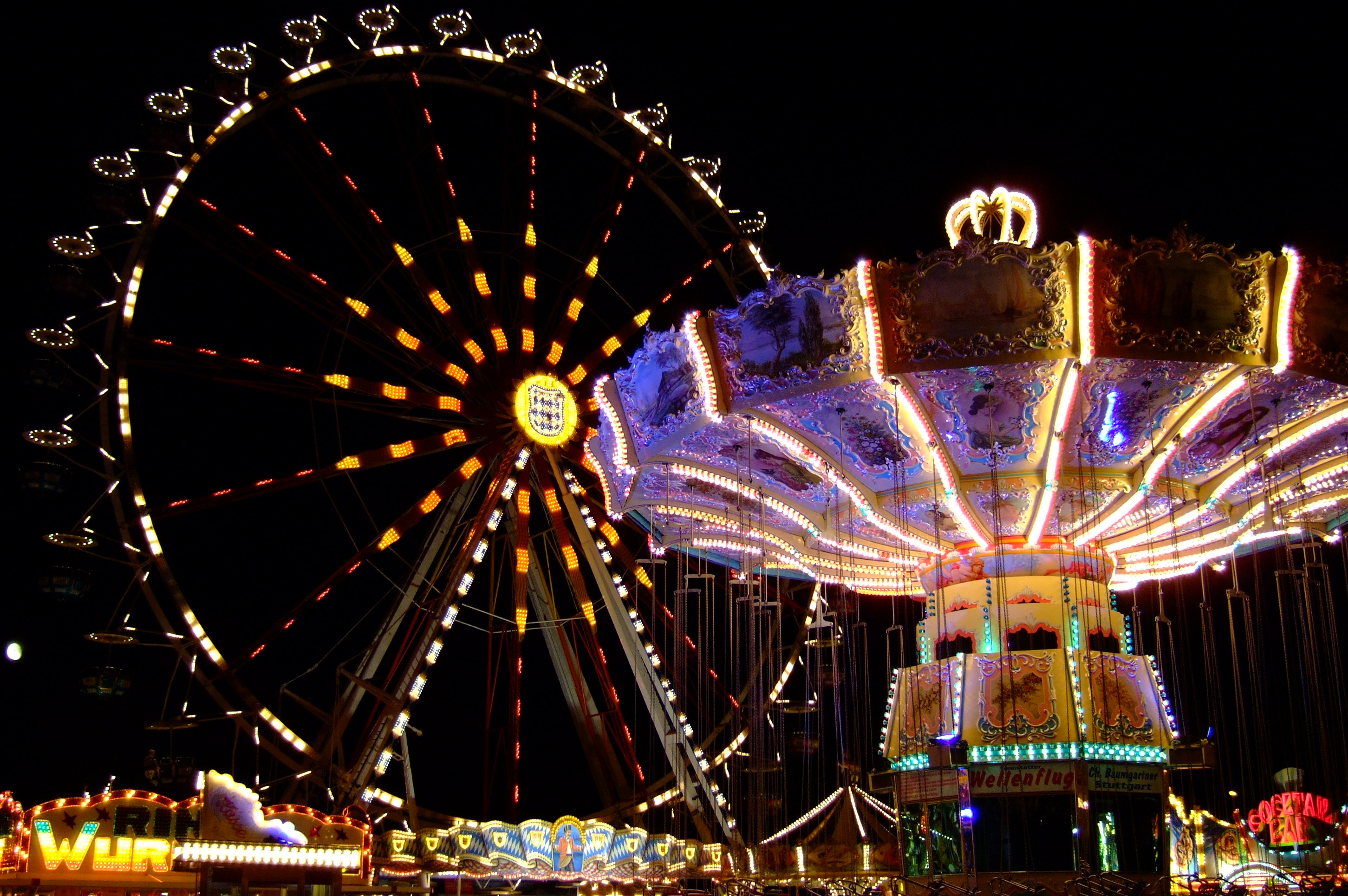 The public festival called: "Unterländer Volksfest" - Heilbronn/Germany